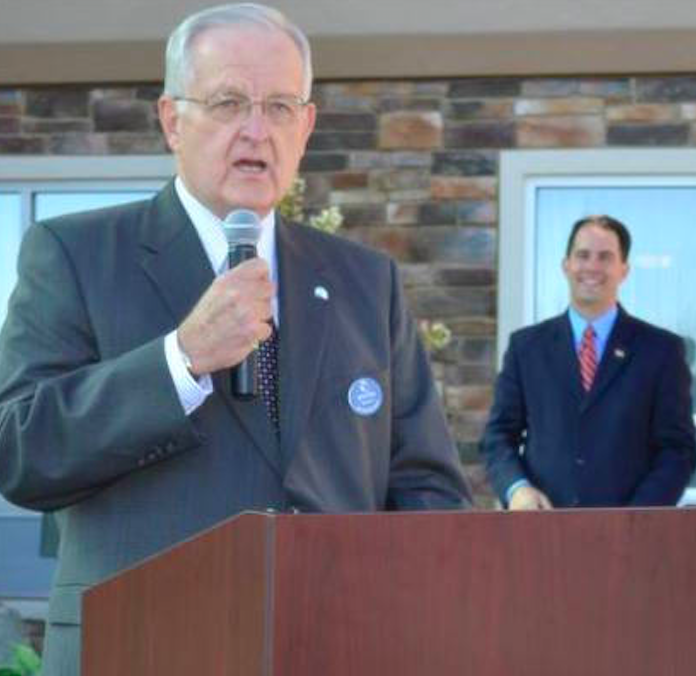 Dave Duax speaking to crowd in Eau Claire. Wisconsin Governor Scott Walker watching behind.